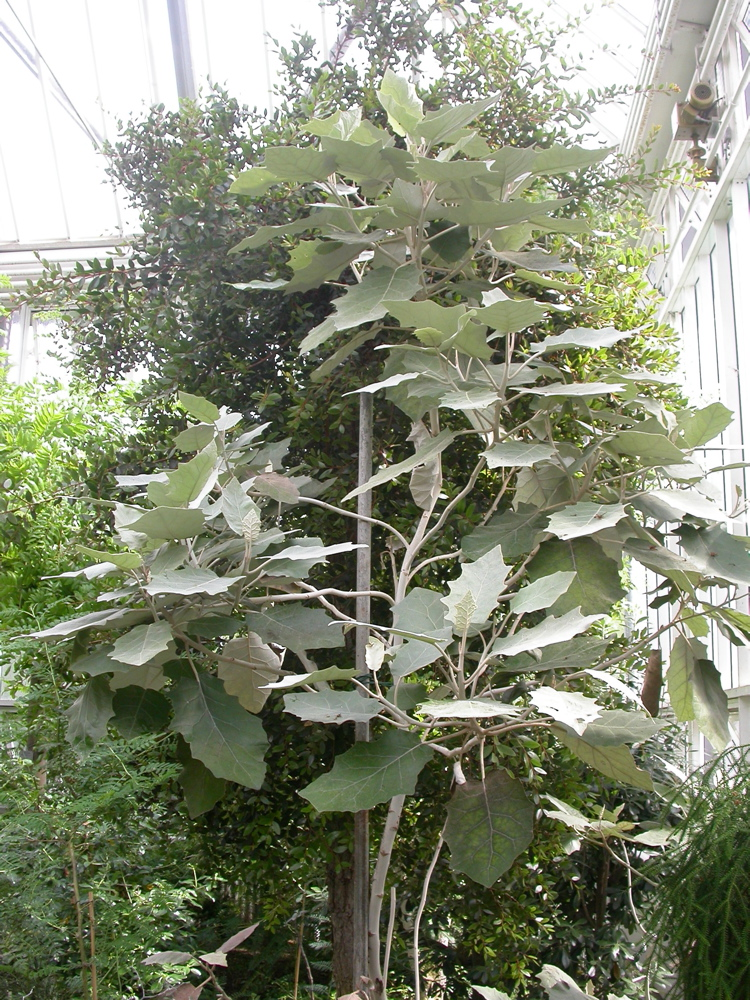 Brachyglottis repanda